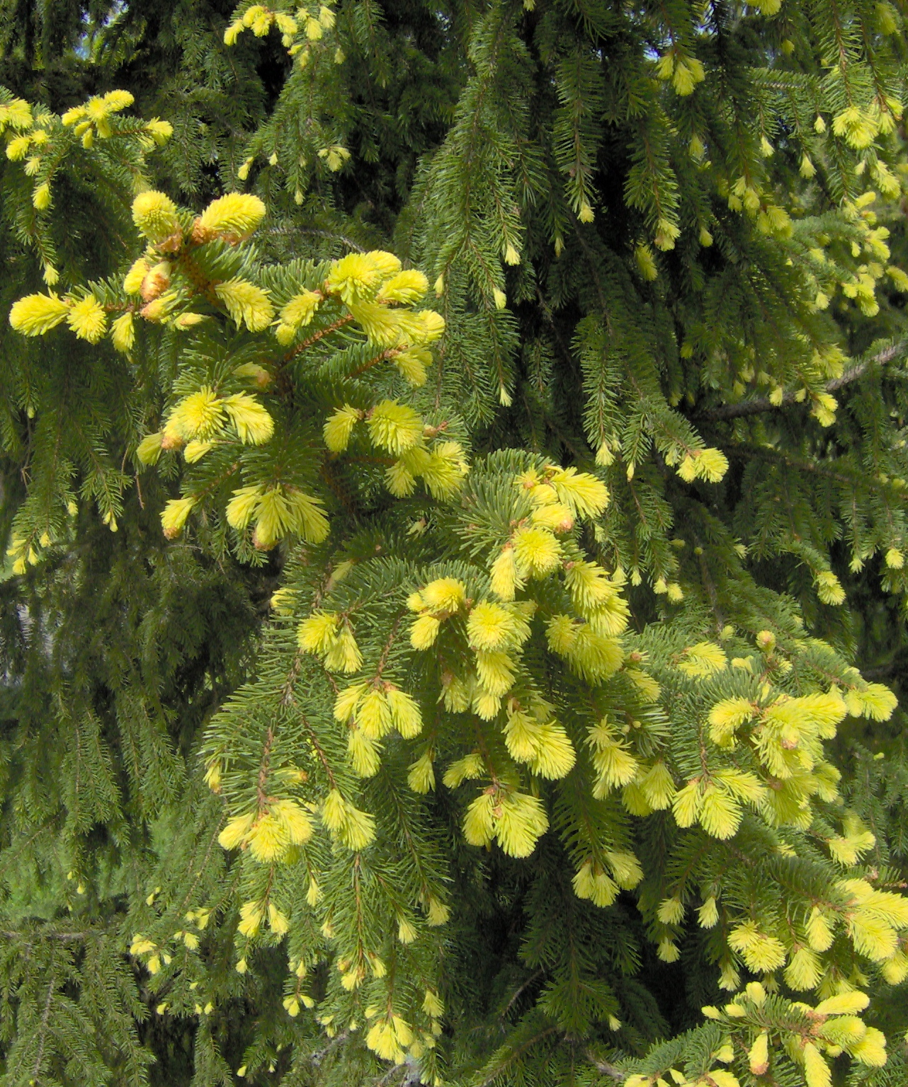 Picea abies f. aurea